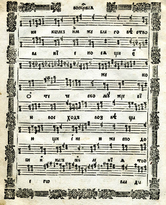 Fragment of the early Orthodox chant (stikhira)